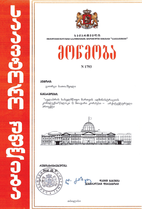 Certificate of authorship. Author: Giga Batiashili. Work: Presidential Palace in Avlabari. Issued by SakPatenti, 16 February, 2006.